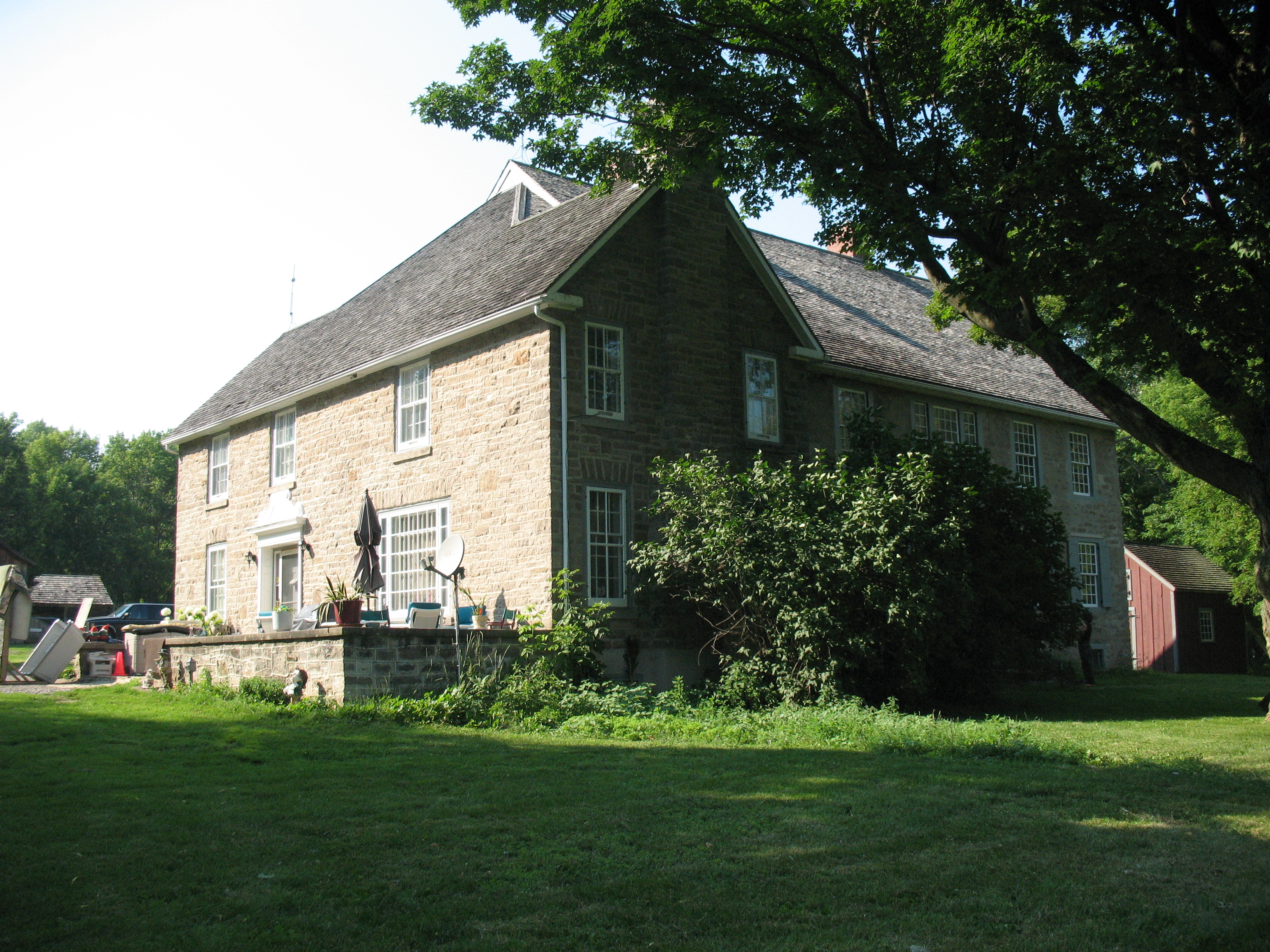 Homewood, originally the home of prominent Loyalist Solomon Jones, now a house museum in Augusta, Ontario.